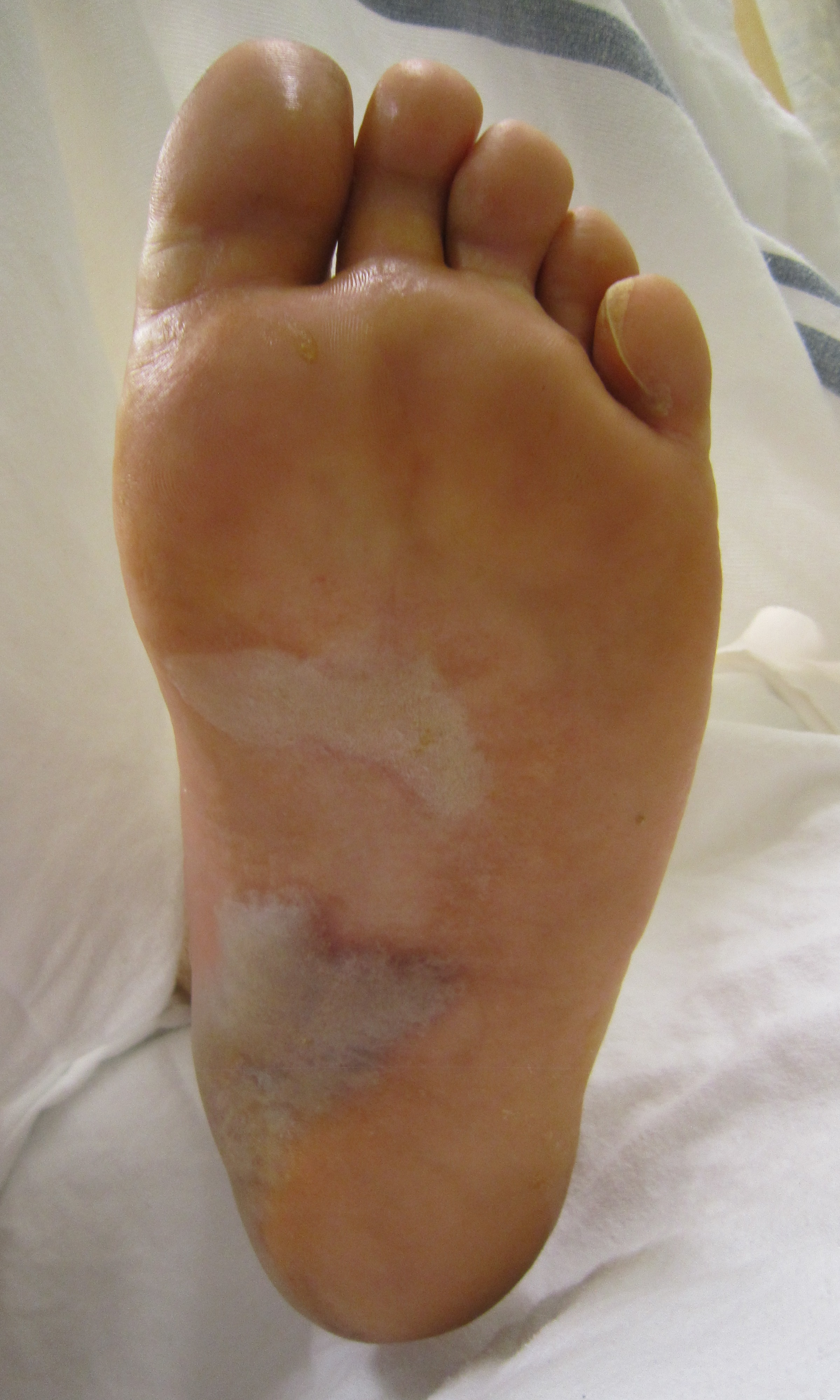 Epidermolysis bullosa simplex